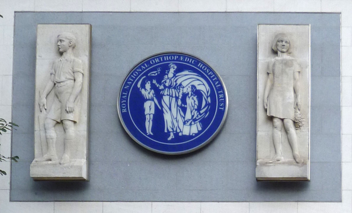 Royal National Orthopaedic Hospital Trust plaque Greenwell Street, London (cropped)